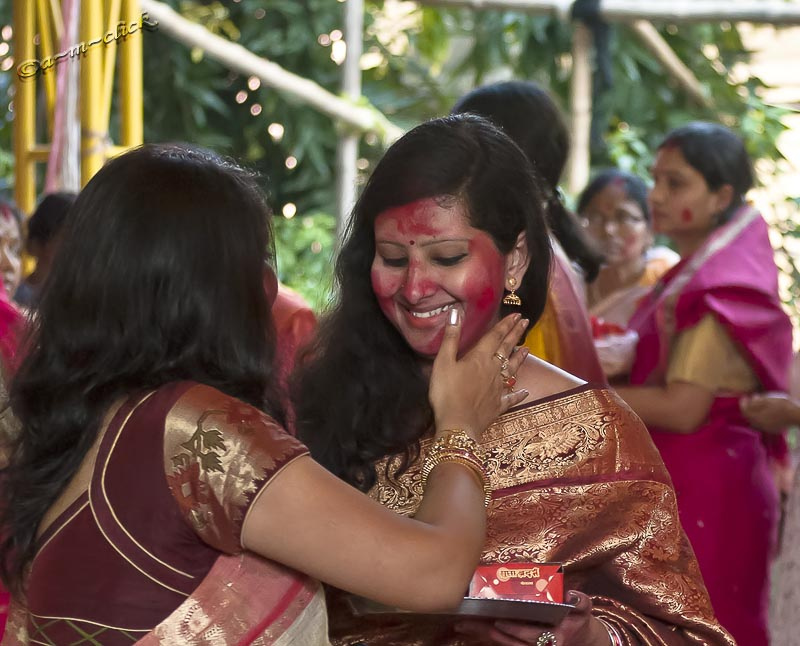 Image of sindur khela, on Vijayadashami day of Durga Puja. In the ritual of sindur khela,married women anoint each other's face with sindur (vermilion)